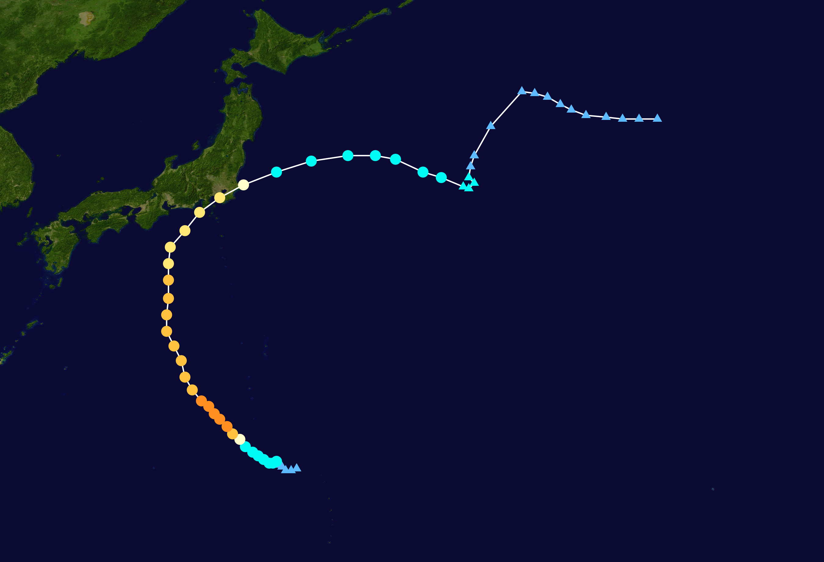 Typhoon Mawar 2005 track. Uses the color scheme from the Saffir-Simpson Hurricane Scale.